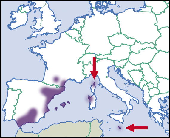 Otala punctata (Müller, 1774). Distribution in Europe, scientific state of knowledge of 2012. Source description in English. Light colour indicated rare occurrences or regions where the species could eventually be expected to occur. Dark colour indicated relatively reliable occurrences, as well as regions where the species was expected to occur, and where the species was not known to be extremely rare. Dark colour indications were not necessarily based on published records. Species summary in AnimalBase